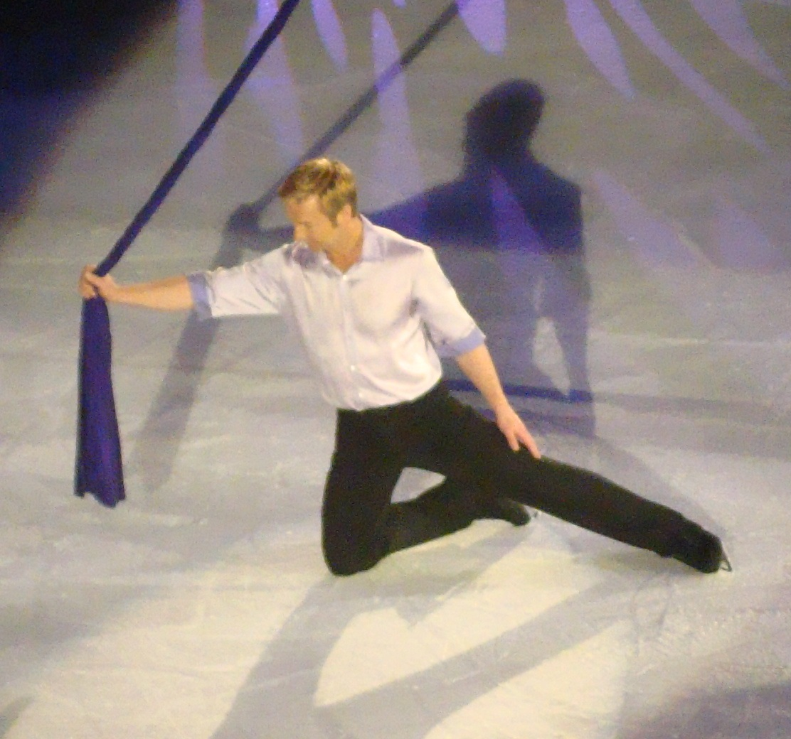 Christopher Dean on the Dancing on Ice tour in Manchester, England, 25 April 2010